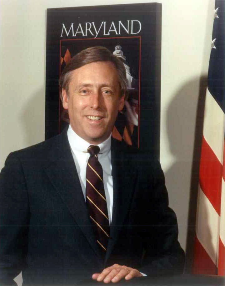 Steny Hoyer, member of the United States House of Representatives.